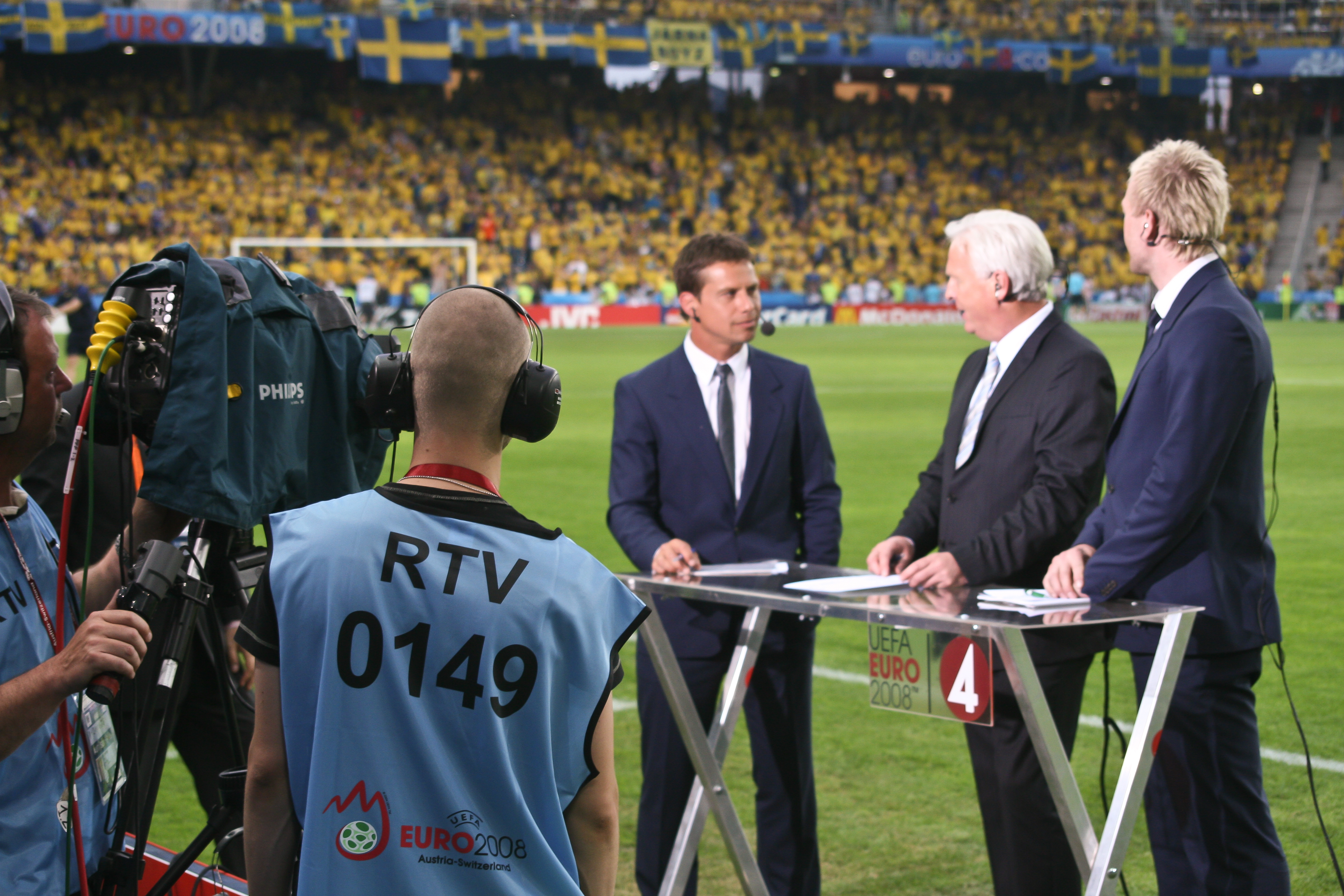 Greece vs Sweden in Salzburg during UEFA Euro 2008